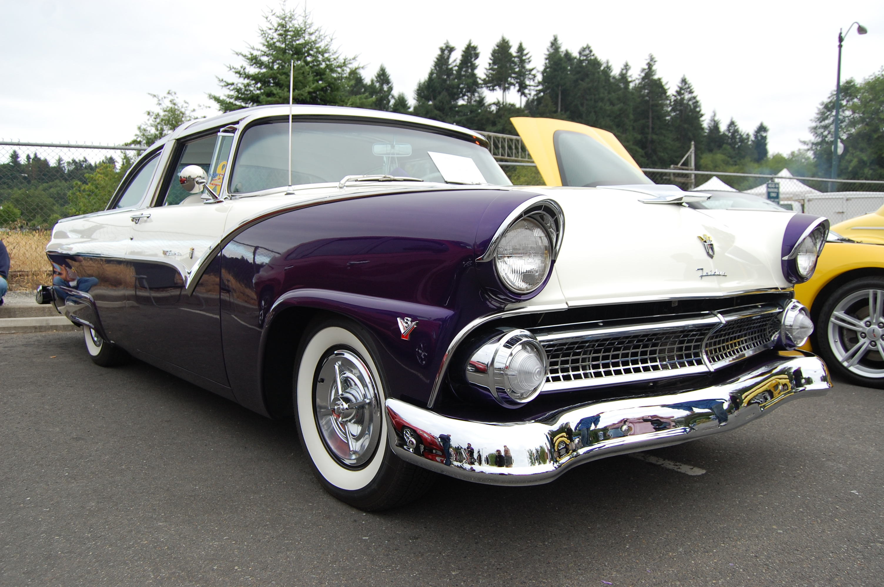 a 1955 Ford Crown Victoria on display at the classic car show at Lakefair 2008, on the shore of Capitol Lake in Olympia, Washington.